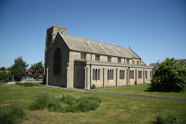 Parish church of SS Simon and Jude, Thurcroft, South Yorkshire, seen from the south. The church was built for Rother Vale Collieries in 1937–39 for the new town of Thurcroft, with the foundation stone laid by the company chairman, Sir Walter Benton Jones.